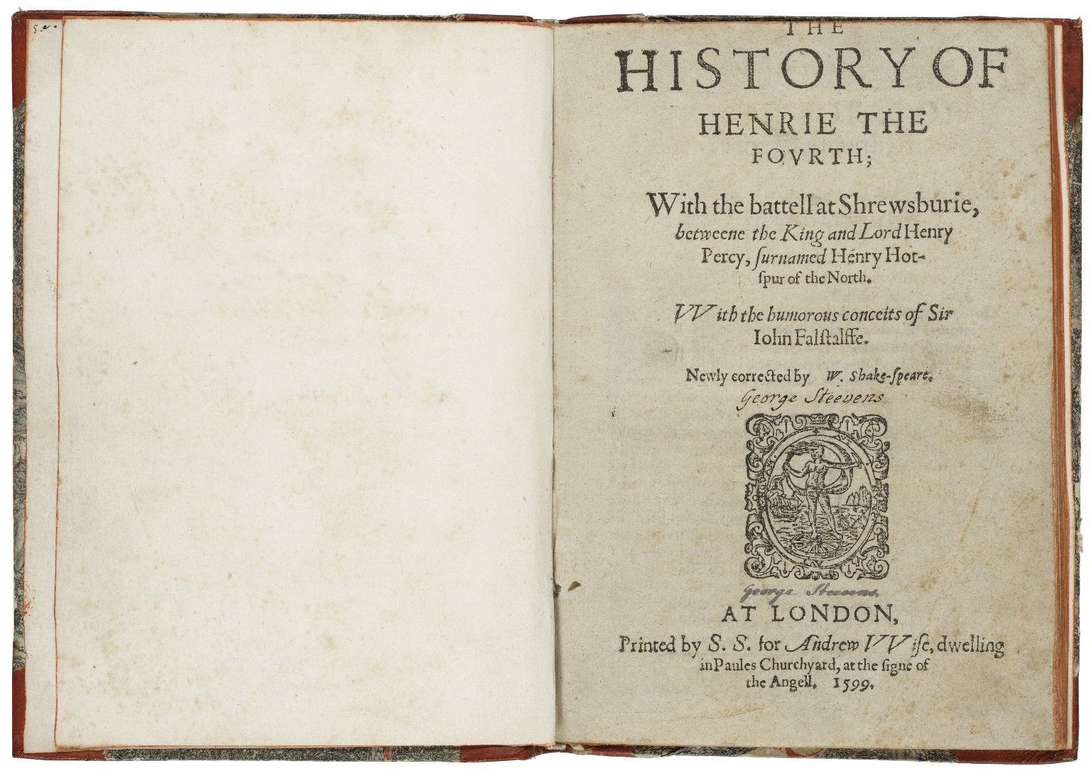 The title page from the first quarto edition of The history of Henrie the Fourth, printed in 1599.